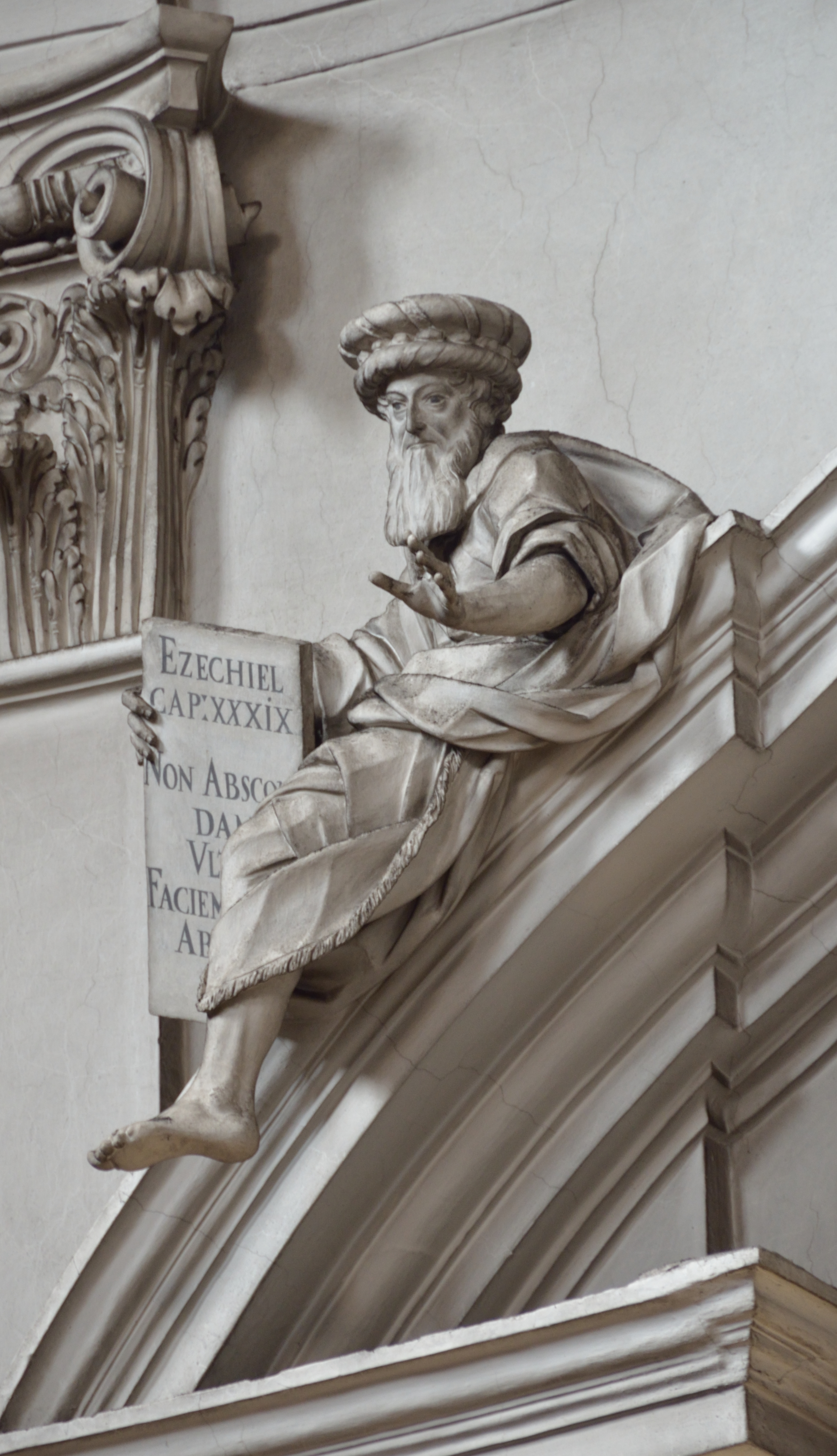 Statue of prophet Ezekiel in the Servite church in Vienna.